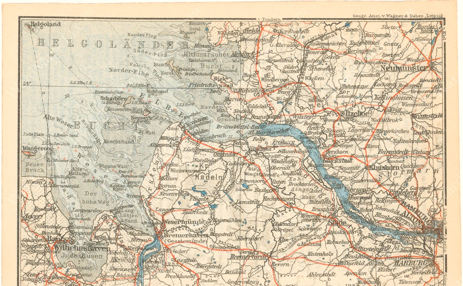 Mouth of Elbe